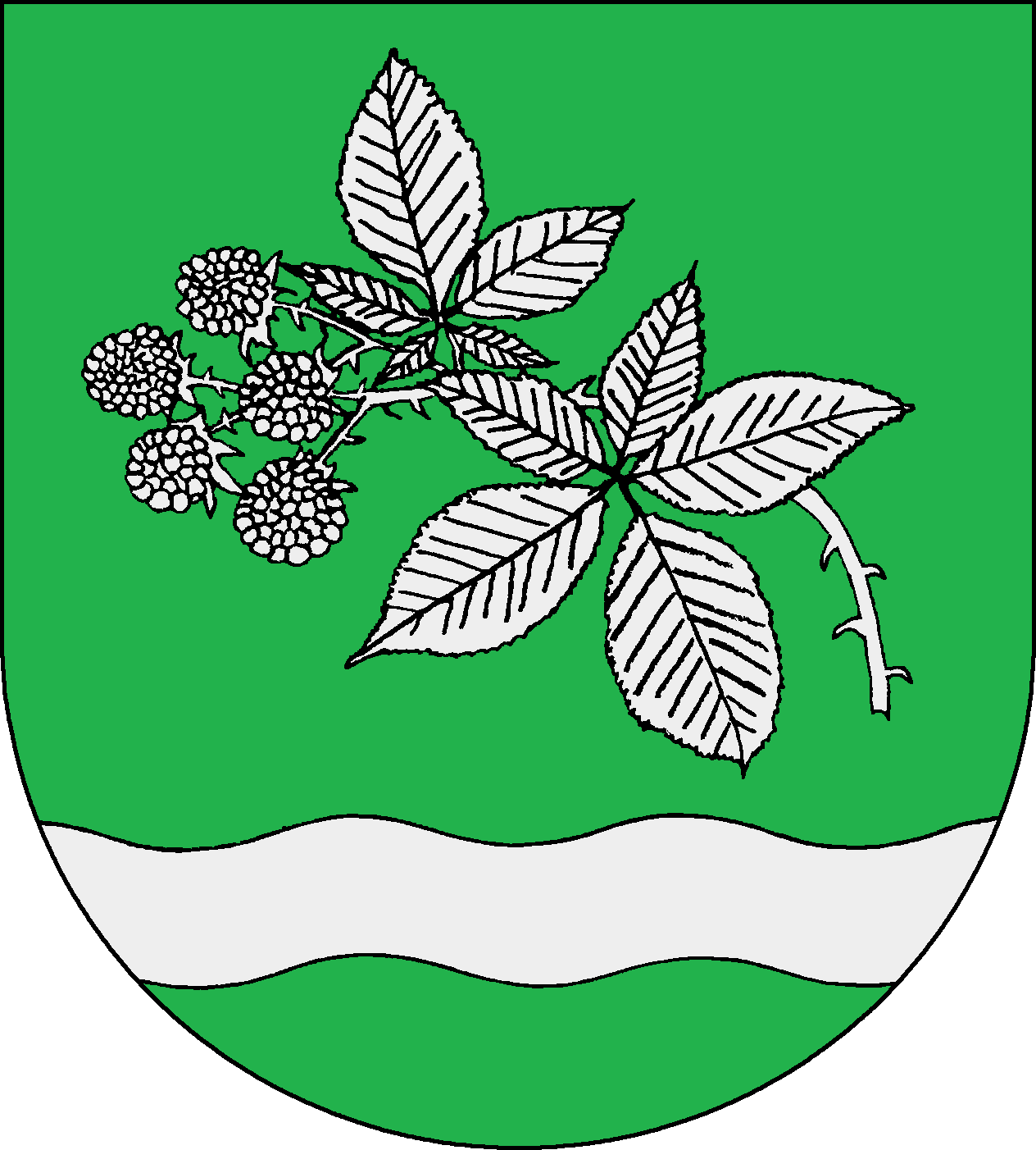 Coat of arms of the municipality Brammer in Schleswig-Holstein, Germany.